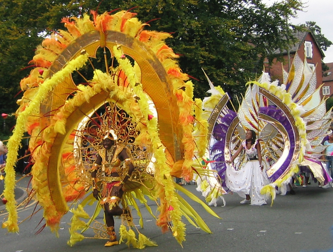 Carnival procession, Chapeltown Leeds, 27 August 2007